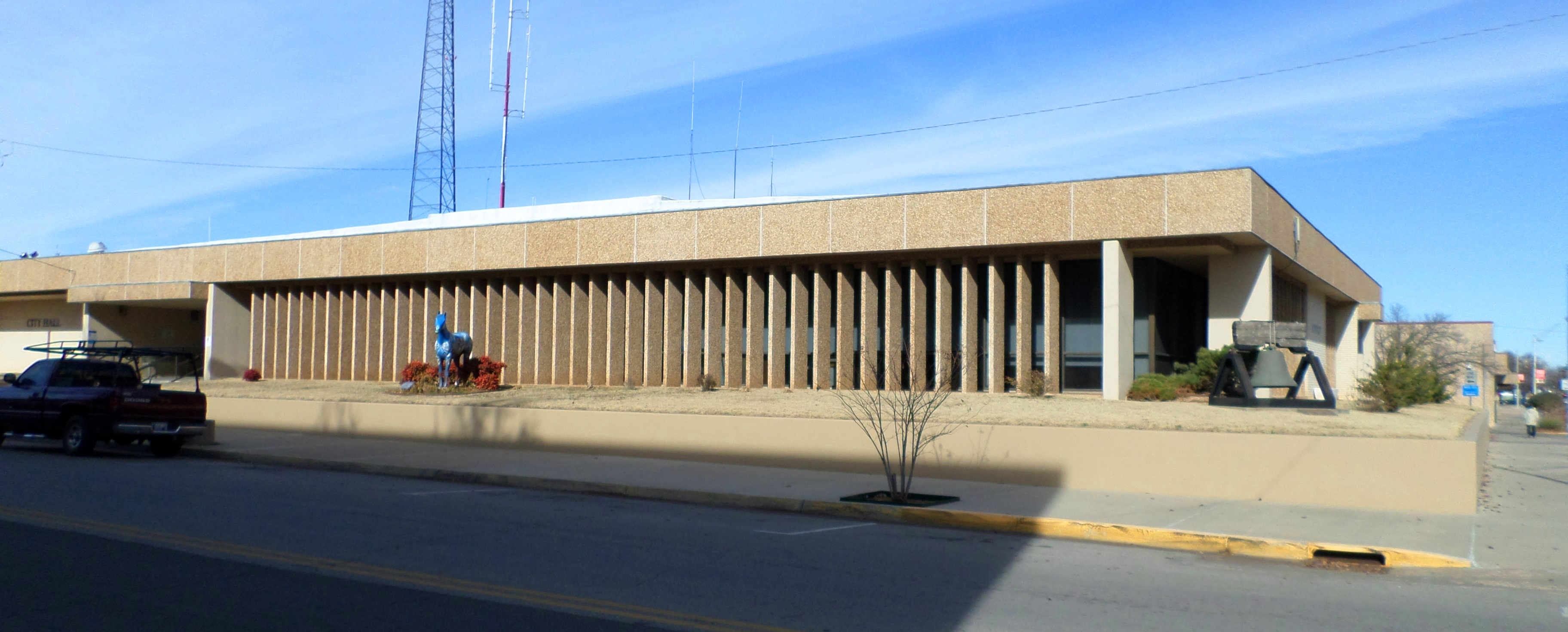 Shawnee City Hall, located at 16 W 9th St, Shawnee, OK.